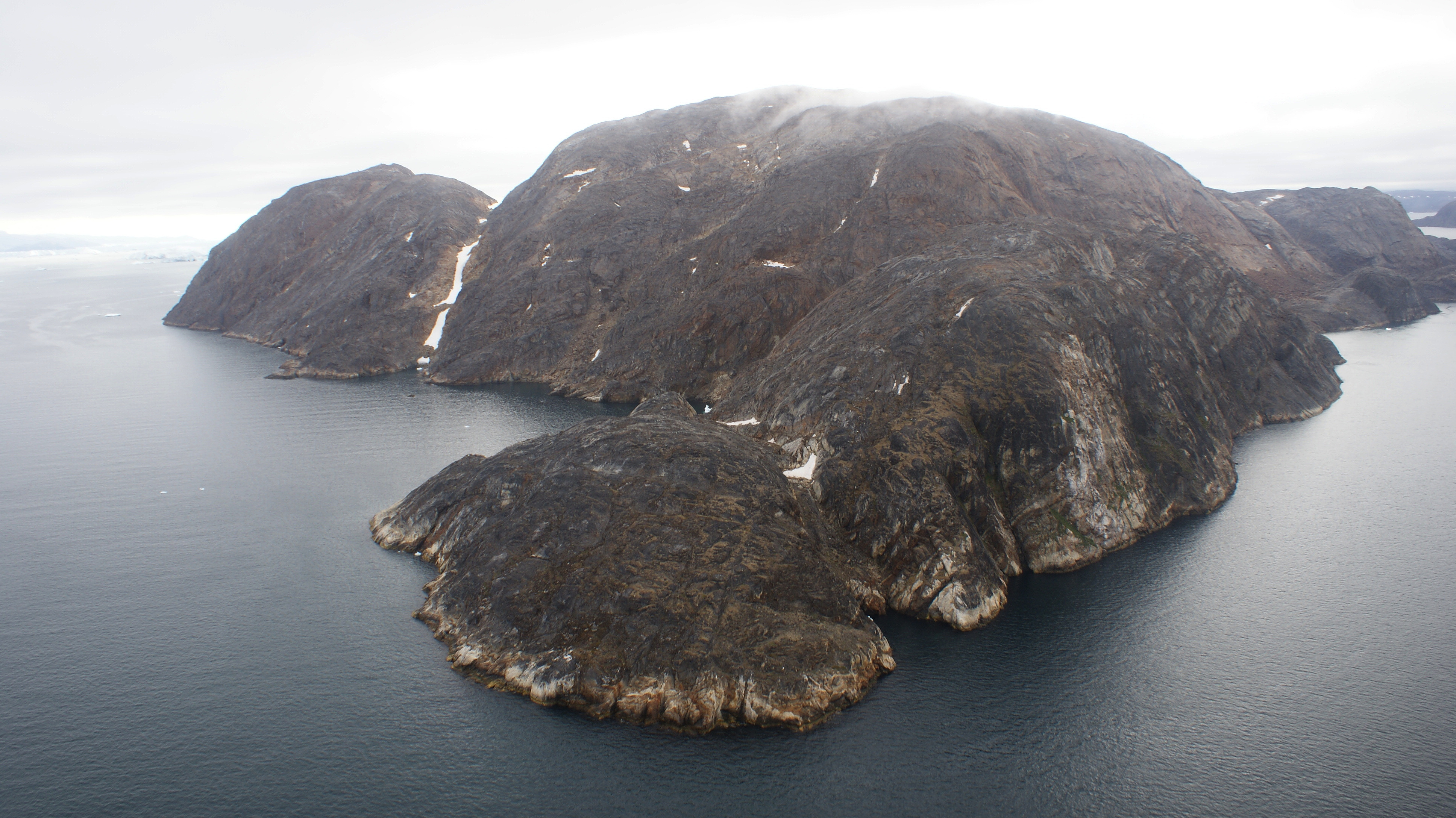 Aerial view of Kingittorsuaq Island, Upernavik Archipelago, Greenland. This is where Kingittorsuaq Runestone was found. Photographed in poor visibility conditions from the Air Greenland Bell 212 helicopter during the Upernavik-Kullorsuaq flight.